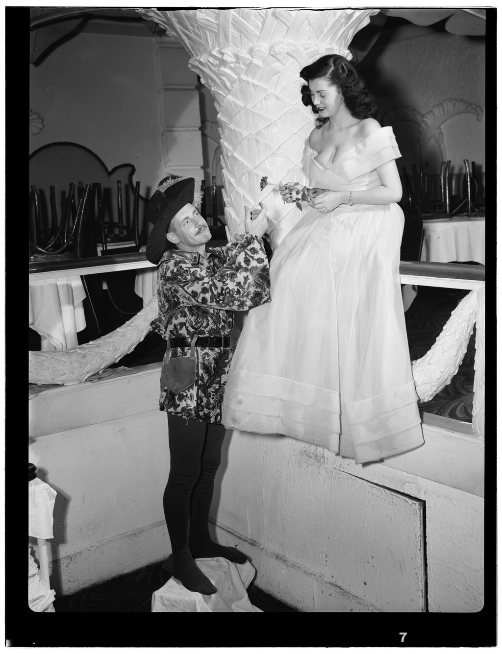 Gottlieb, William P., 1917-, photographer. Larry Clinton and Betty George, Copacabana(?), New York, N.Y., ca. Sept. 1947] 1 negative : b&w ; 3 1/4 x 4 1/4 in. Notes: Gottlieb Collection Assignment No. 074 Reference print available in Music Division, Library of Congress. Purchase William P. Gottlieb Forms part of: William P. Gottlieb Collection (Library of Congress). Subjects: Clinton, Larry, 1910- George, Betty Jazz musicians--1940-1950. Trumpet players--1940-1950. Women jazz musicians--1940-1950. Jazz singers--1940-1950. Format: Portrait photographs--1940-1950. Cityscape photographs--1940-1950. Film negatives--1940-1950. Rights Info: Mr. Gottlieb has dedicated these works to the public domain, but rights of privacy and publicity may apply. Repository: (negative) Library of Congress, Prints & Photographs Division, Washington D.C. 20540 USA, (reference print) Library of Congress, Music Division, Washington D.C. 20540 USA, Part Of: William P. Gottlieb Collection (DLC) 99-401005 General information about the Gottlieb Collection is available at Persistent URL: Call Number: LC-GLB23- 0141